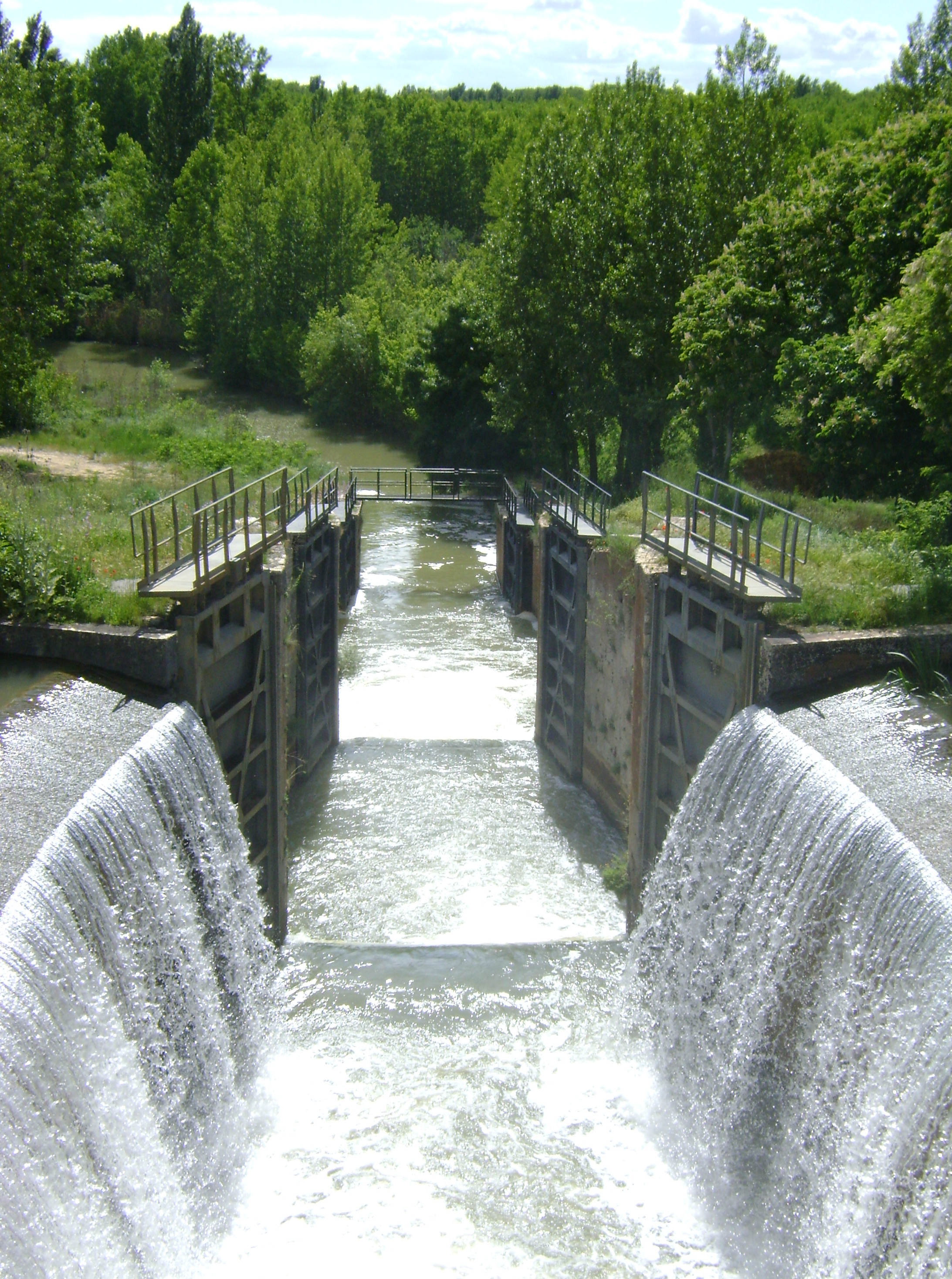 This is a photography of a Special Area of Conservation in Spain with the ID: ES4140080. Natura2000 entry, EEA entry